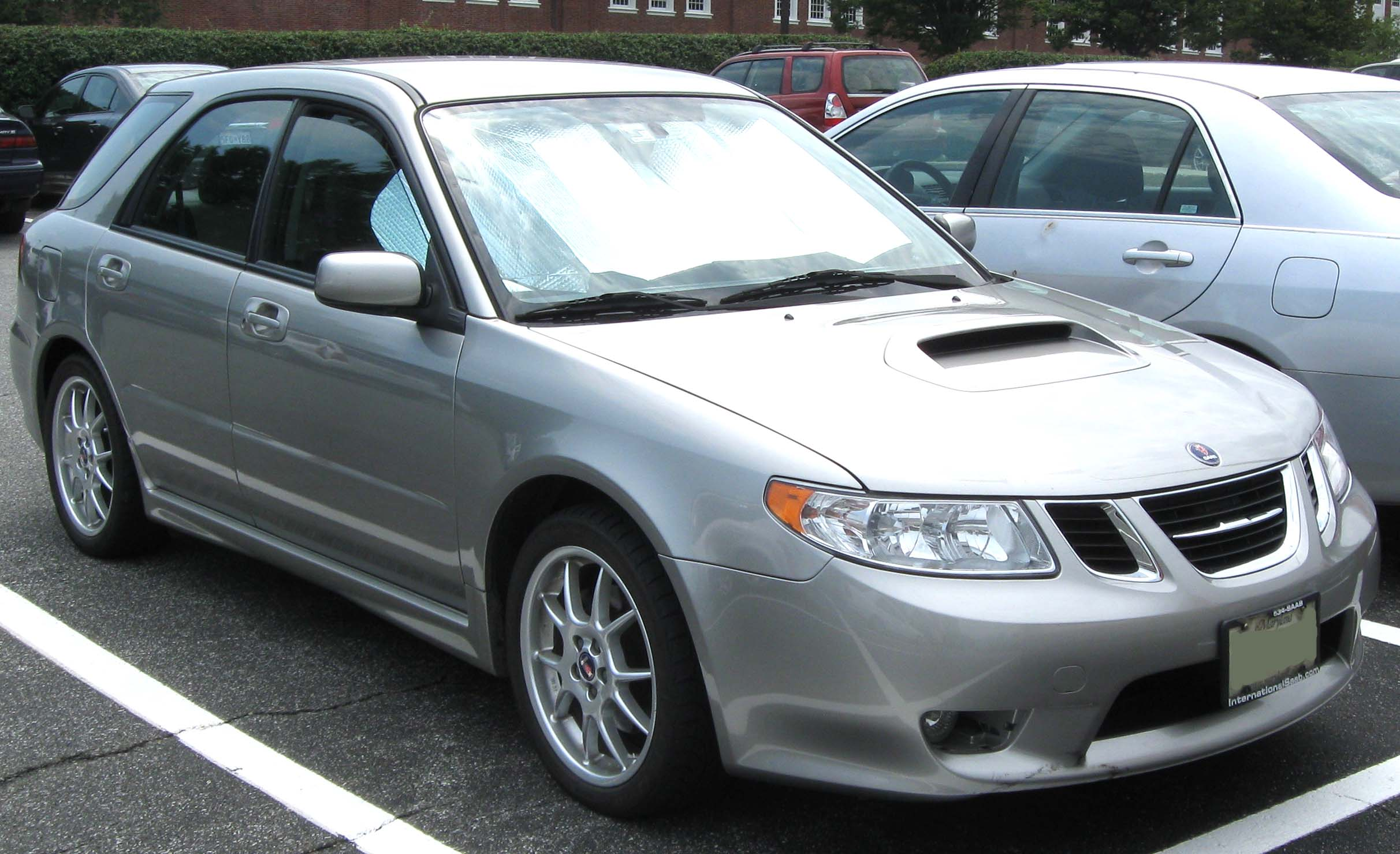 Saab 9-2X photographed in College Park, Maryland, USA.